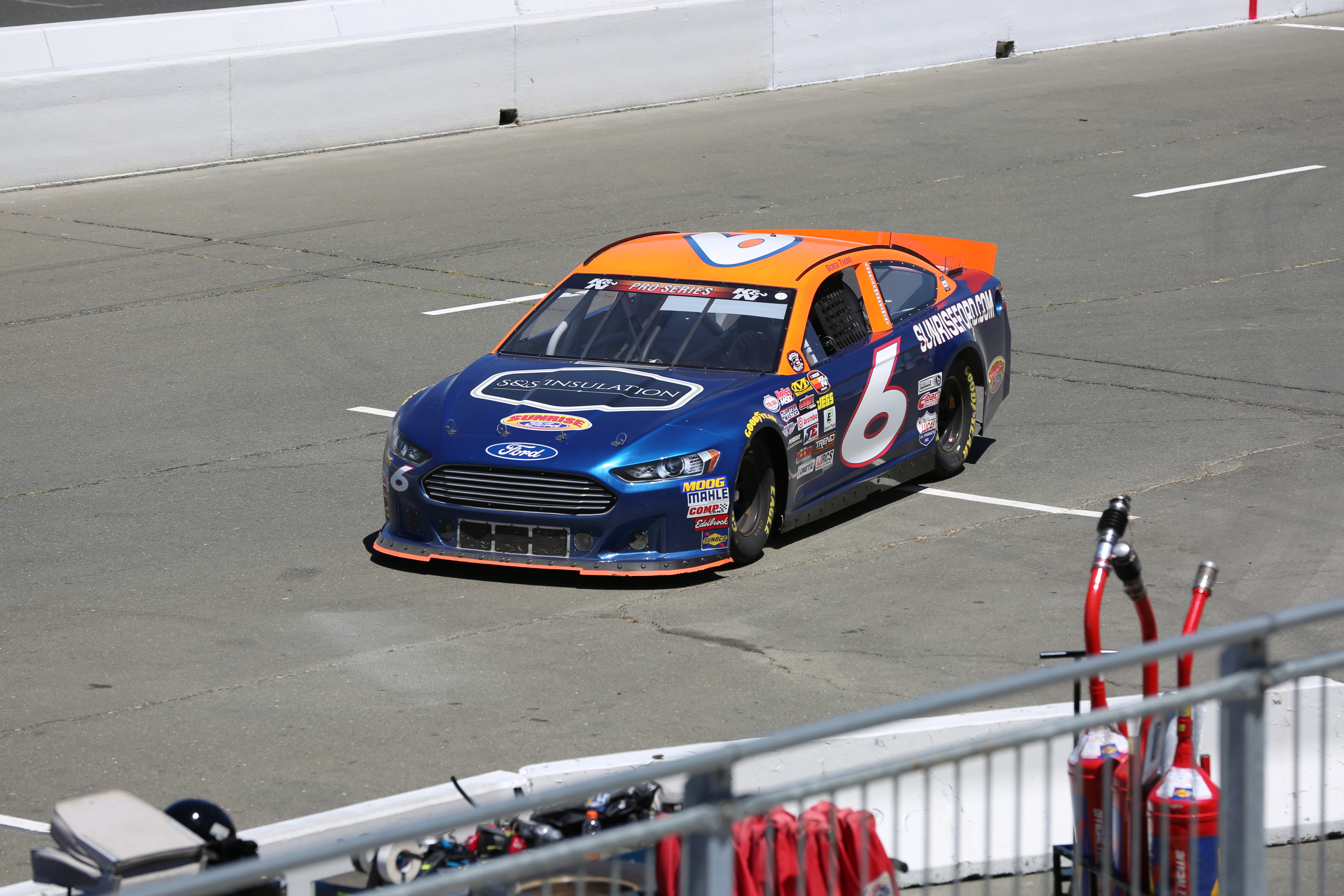 Derek Thorn's No. 6 S&S Insulation/Sunrise Ford Dealers Ford at Sonoma Raceway in 2018